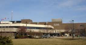 Made it this morning w/ Sony Cybershot DSC-P200